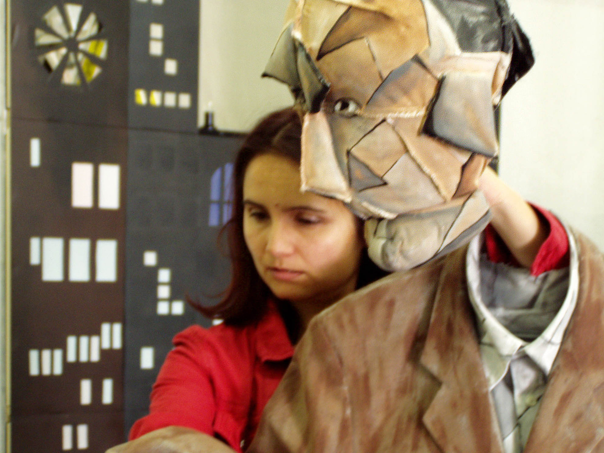 Austrian Theatre director Karin Schäfer with Picasso-style one of her Puppets, from the production "Pictures at an Exhibition". (Note: Overwriting (by digitally enhanced version) had been approved in advance by original's uploader.)